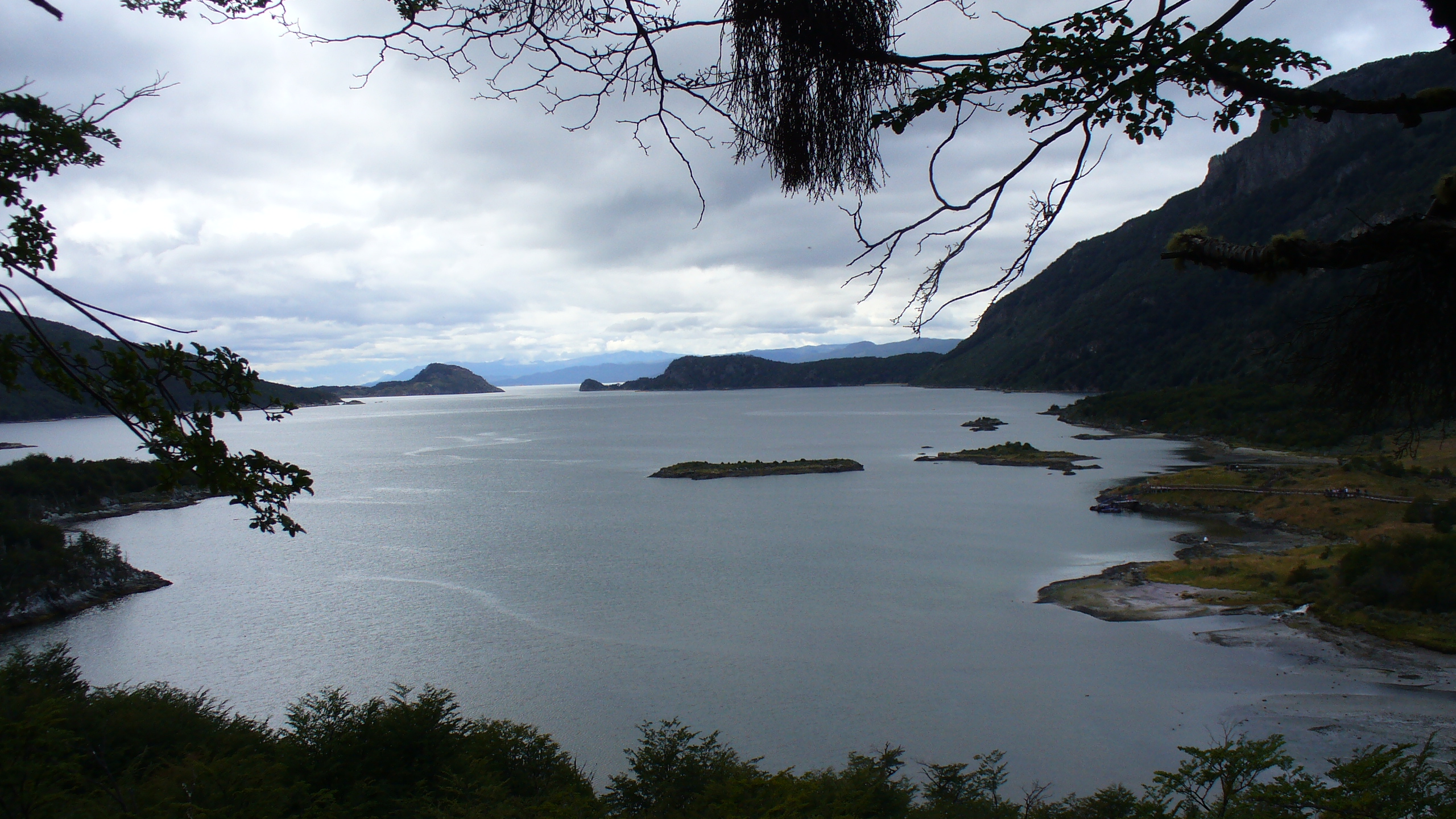 Bahía Lapataia is a bay located on the Beagle Channel in Tierra del Fuego National Park, Province: Tierra del Fuego, Argentina. Here is the end of the National Route No. 3 (Ruta Nacional Nº 3) of Argentina.